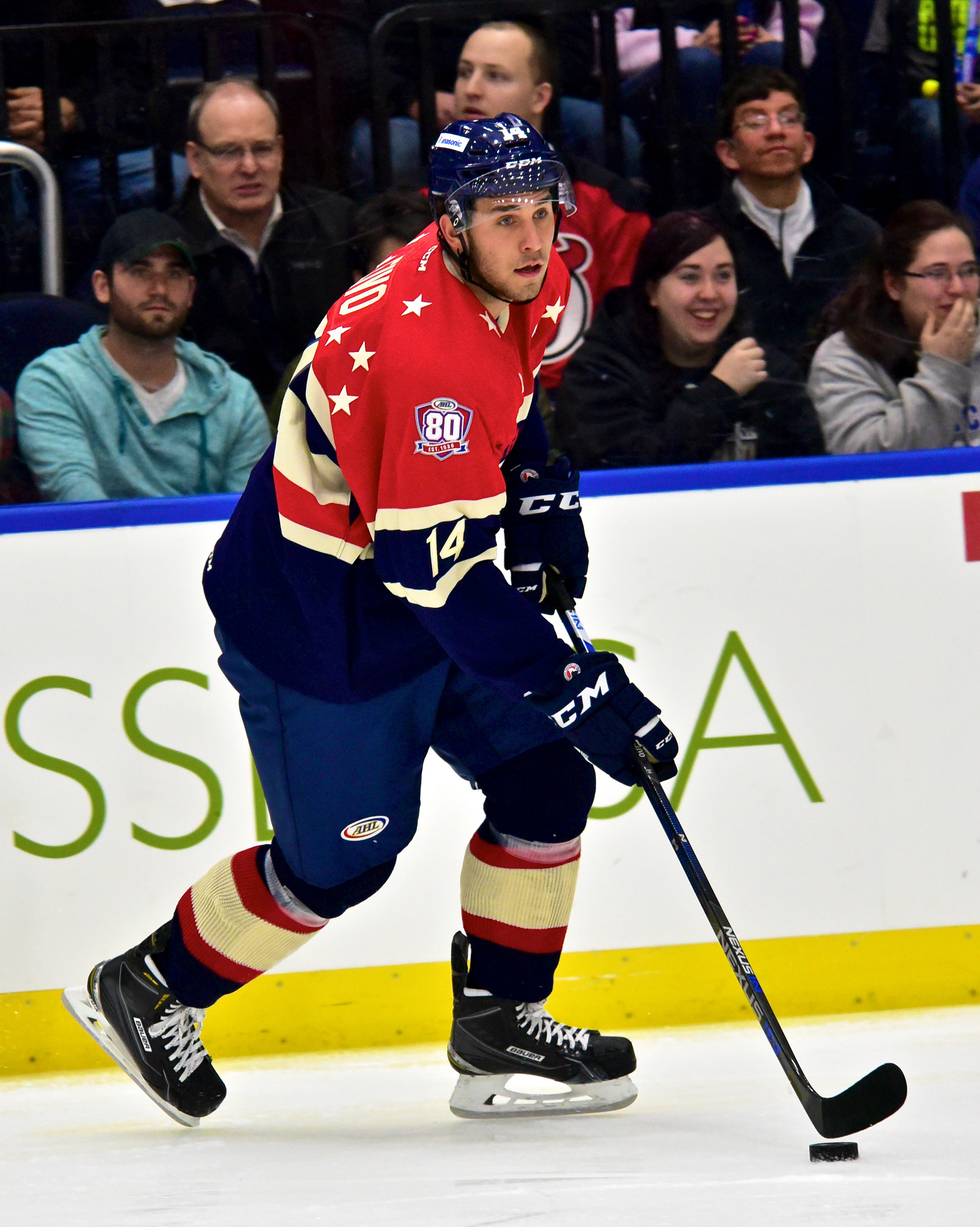 AHL All-Star Challenge Eastern Conference locker room at the War Memorial Arena in Syracuse, New York on Monday, February 1, 2016.